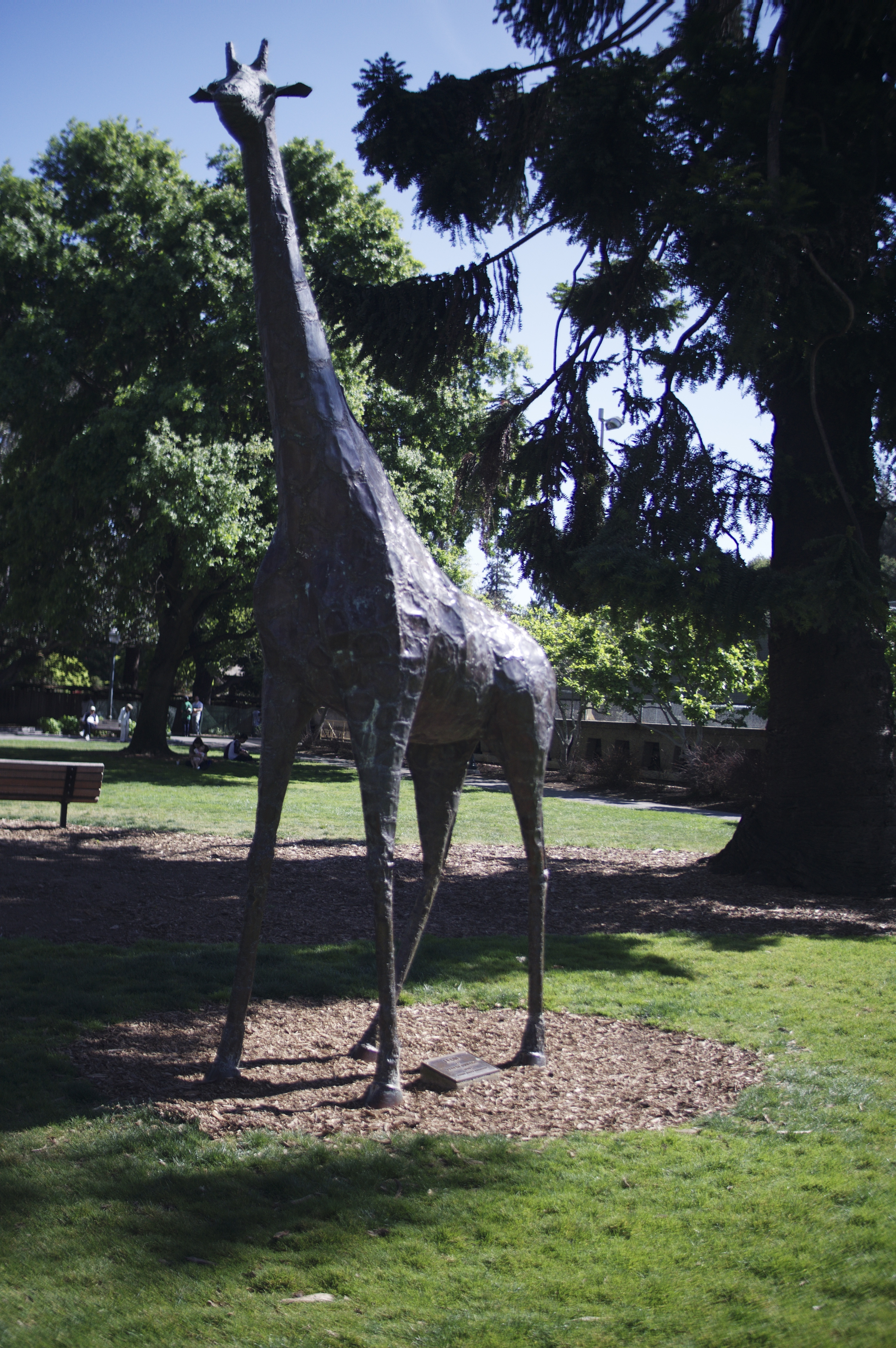 He's a pretty friendly giraffe.